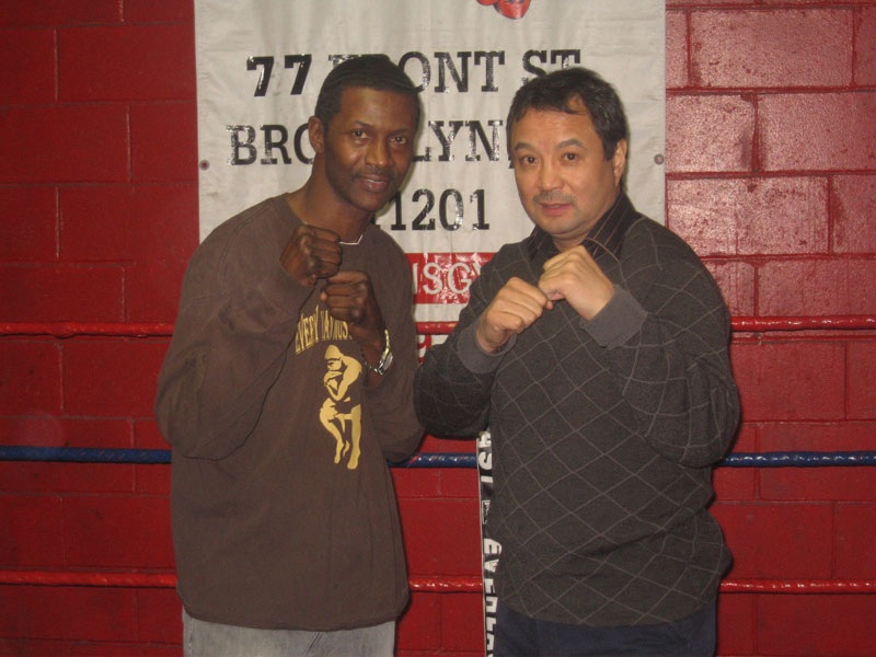 Mark Breland and Serik Konakbayev in 2010